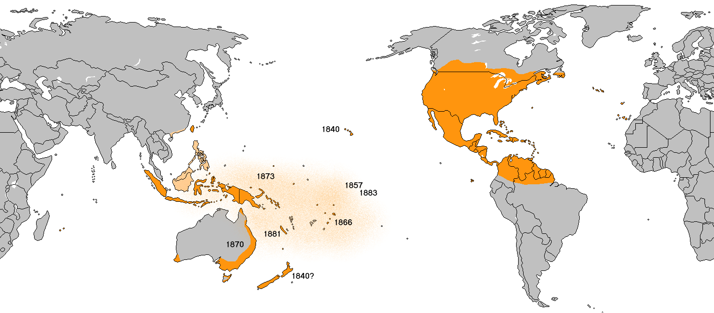 Distribution of Monarch Butterfly Danaus plexippus (large, with dates)